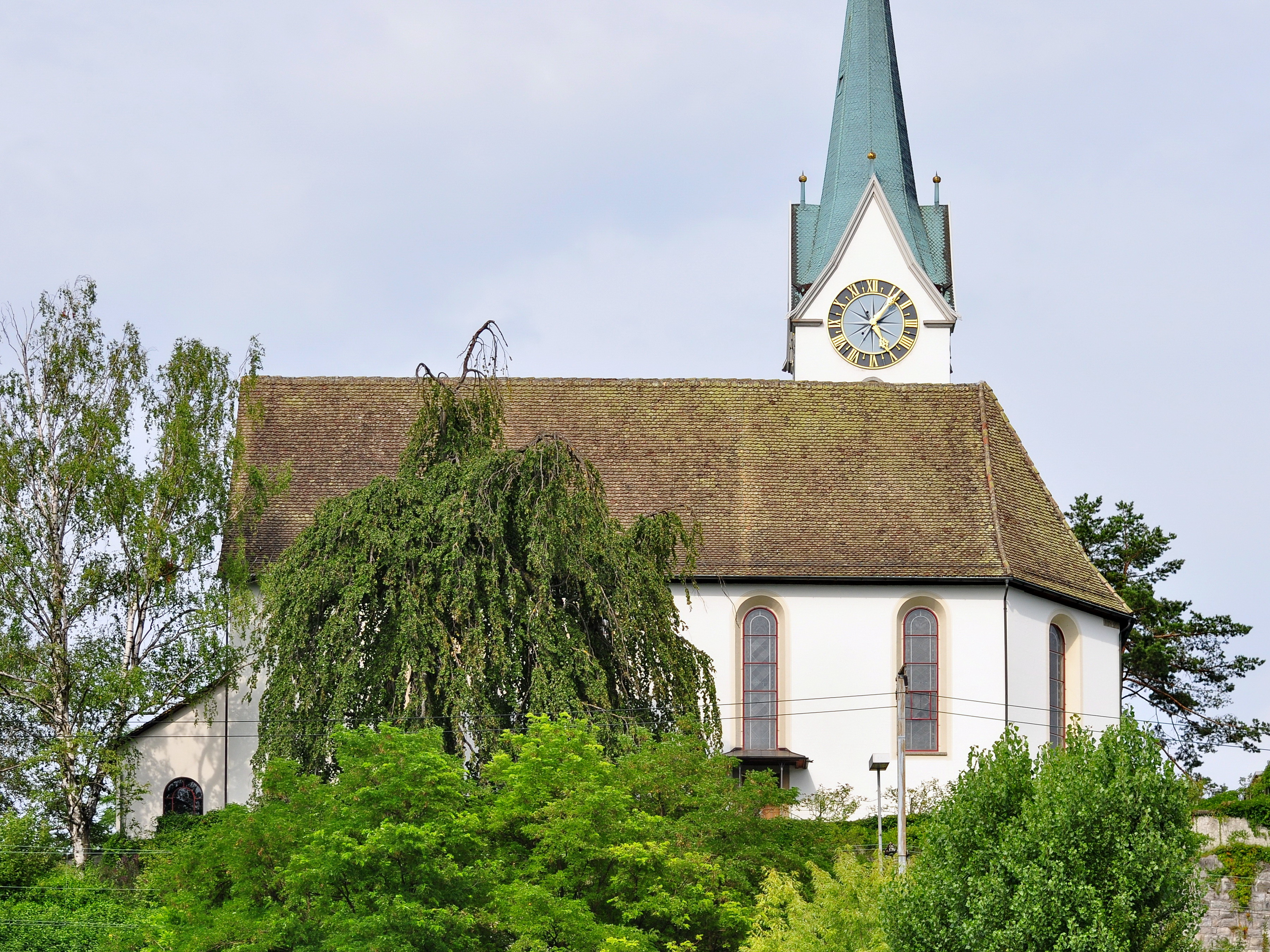 Küsnacht (Switzerland) as seen from ZSG paddle steamship Stadt Rapperswil